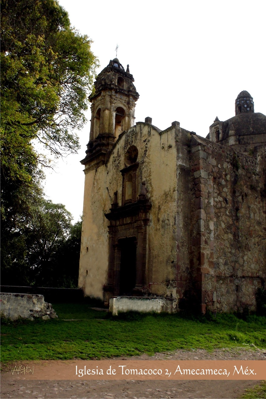 Capilla abandonada de la época de la revolucion